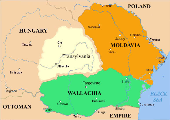 Romania's territory, map showing the period 1395-1494